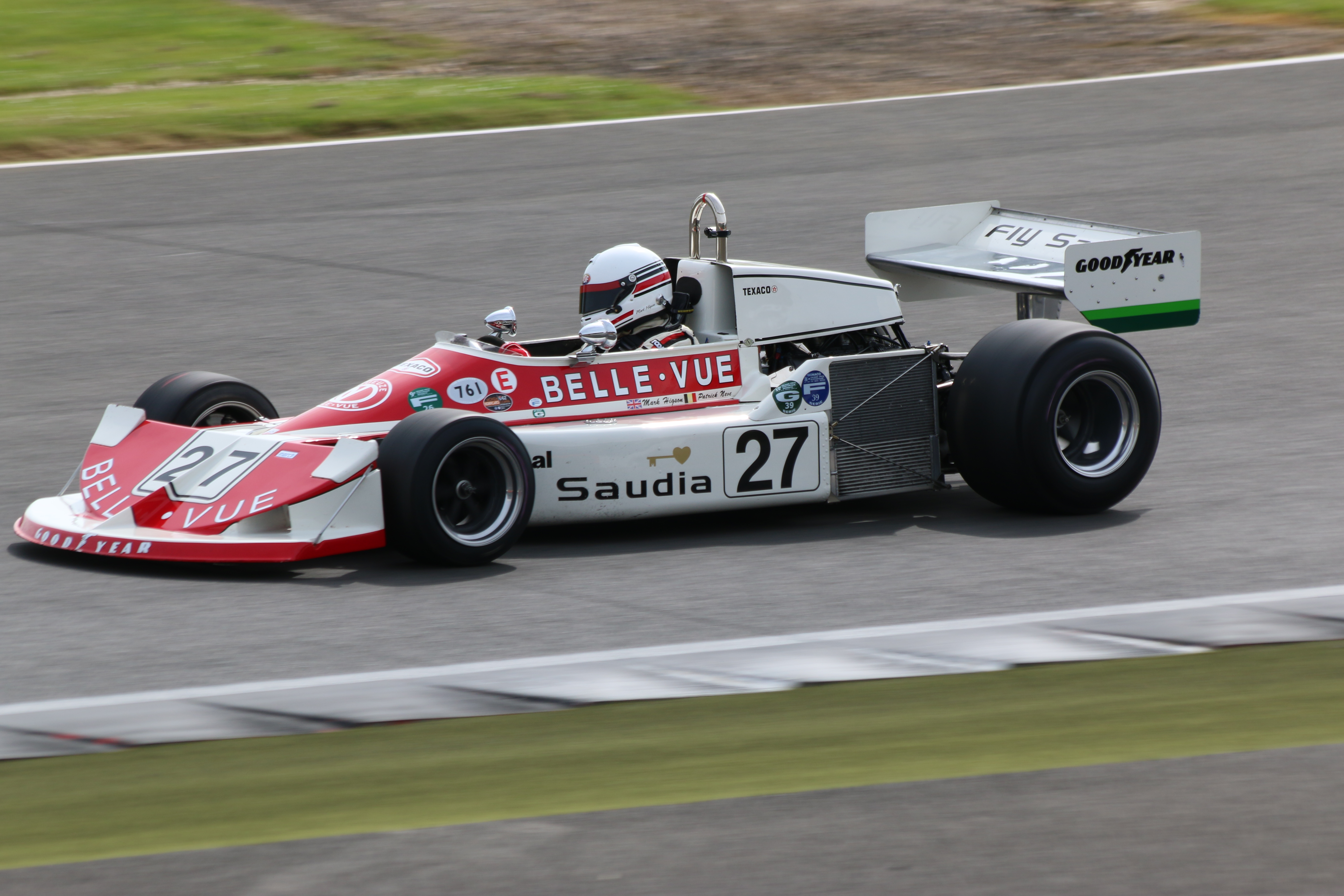 1977 March 761, #27, Originally driven by Patrick Nève (Williams team).